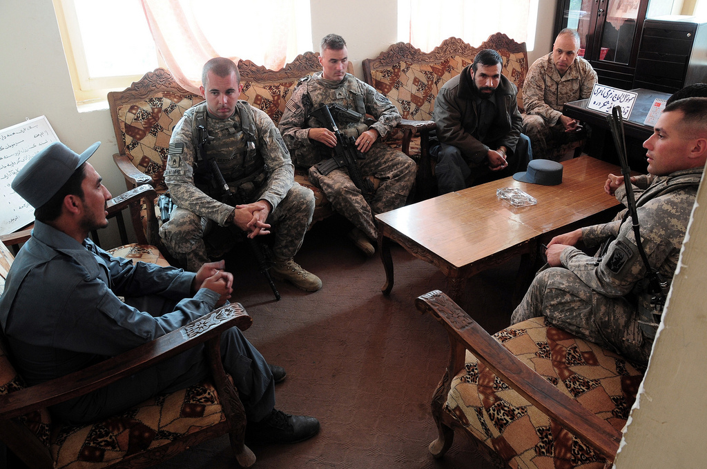 KABUL, Afghanistan - U.S. Army personnel, 101st Field Artillery, 86th Infantry Brigade Combat Team (IBCT) conduct a visit to the town and Police Department of Shakadara, Afghanistan. The members of the 86th IBCT regularly visit police departments in the outlying areas of Kabul and provide mentoring and training to those forces. (U.S. Air Force photo by Master Sgt. Mark DePass)